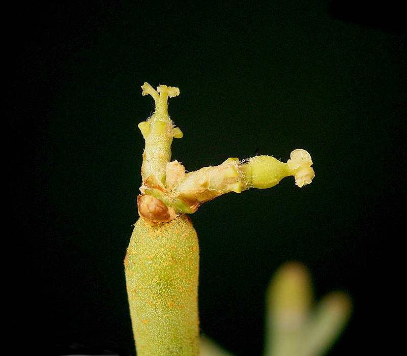 Euphorbia fiherensis